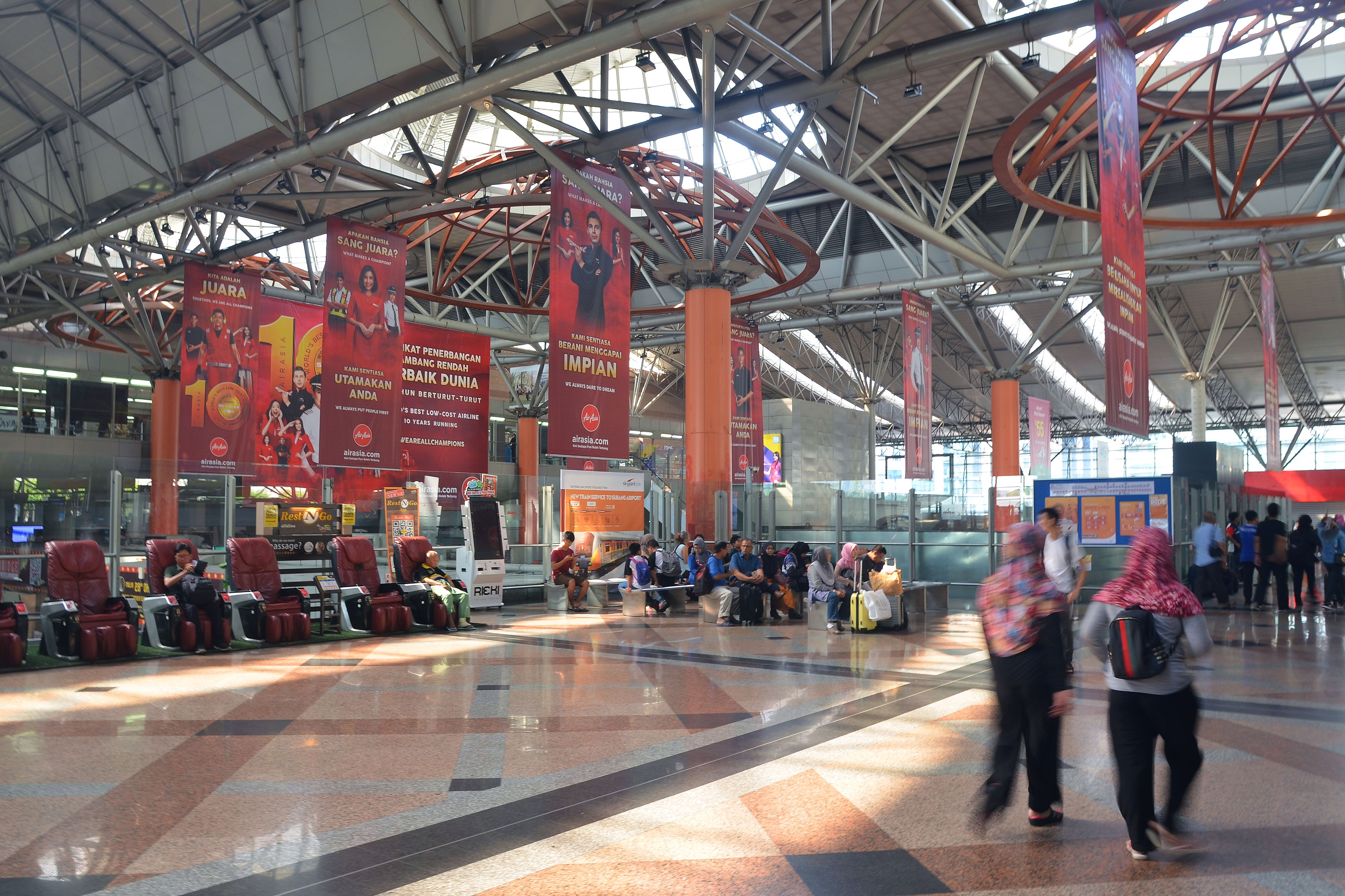 The main concourse of Kuala Lumpur Sentral station.